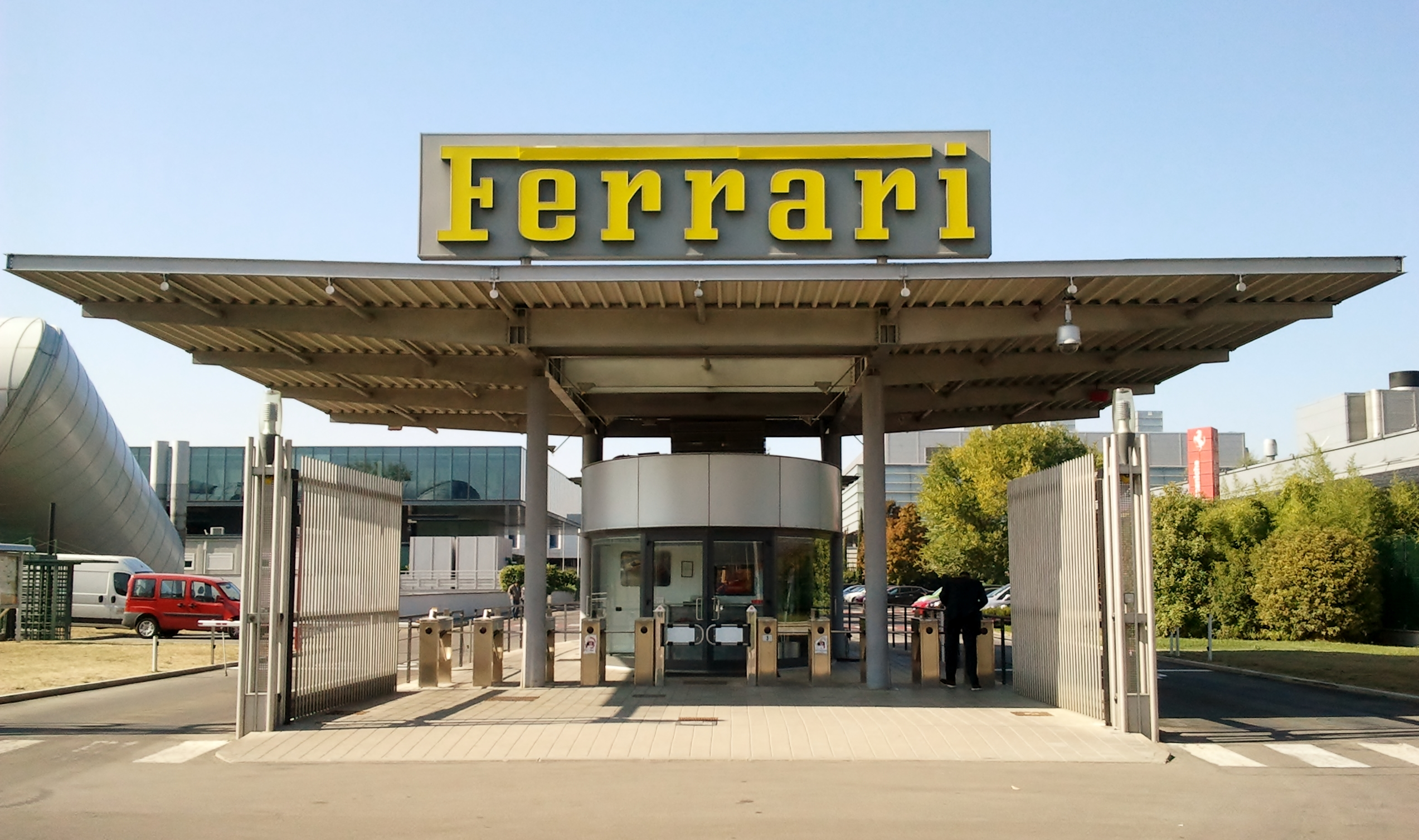 Ferrari facility (Est entry). Maranello. Italy